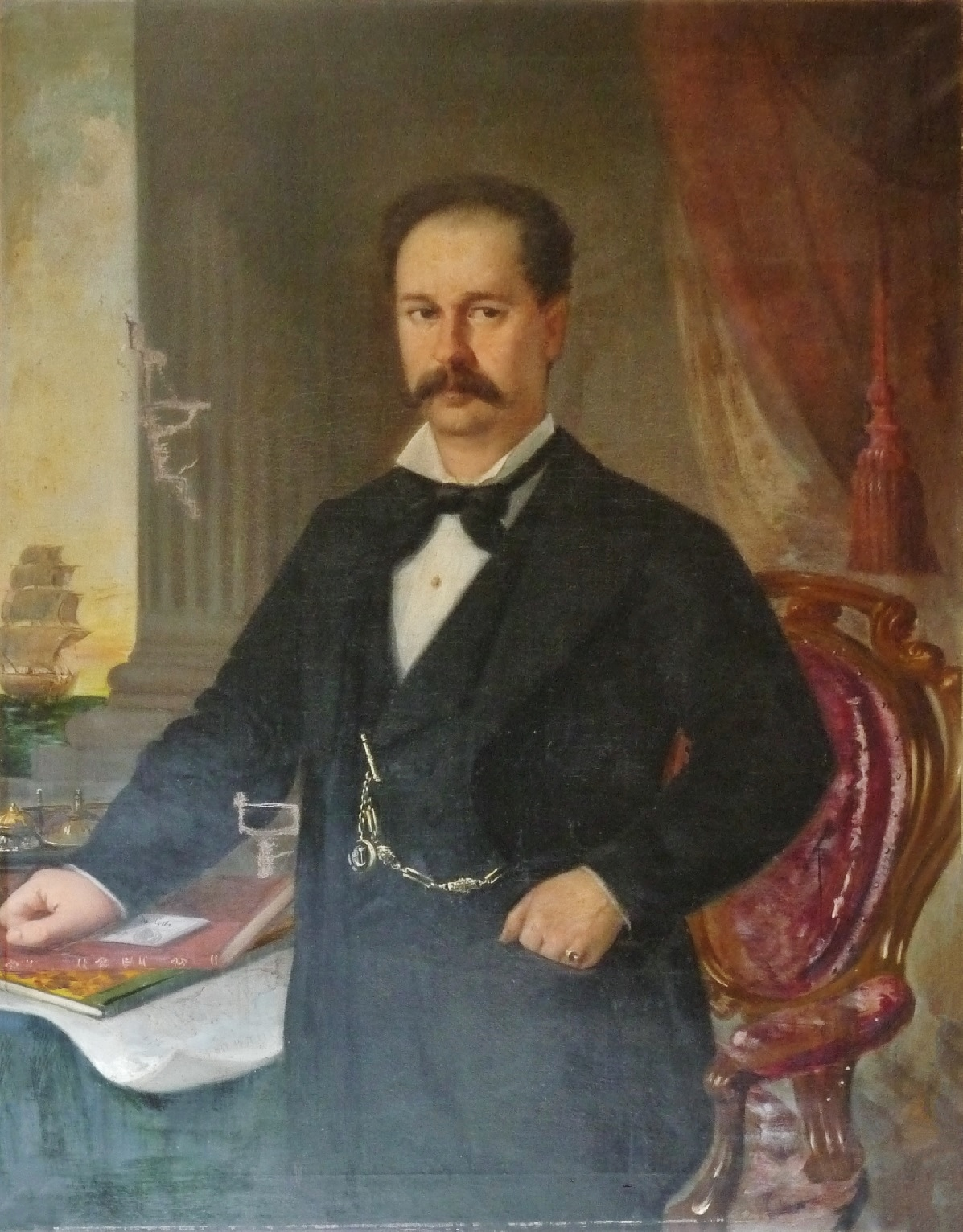 Portrait painting of José Inácio Costa, circa 1880.